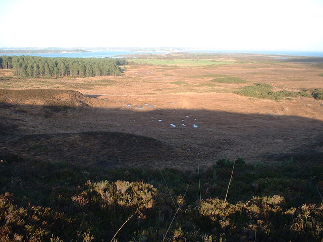 Godlingston Heath NNR - central bog On the slopes beyond the golf course you get to see just how big an area of heathland Studland and Godlingston Heath NNR is, about 750 hectares. Here the central bog is in the centre, with bog pools in the wettest areas, whilst beyond, the borders of Rempstone Forest impose upon the heath and Greenlands Farm show up.